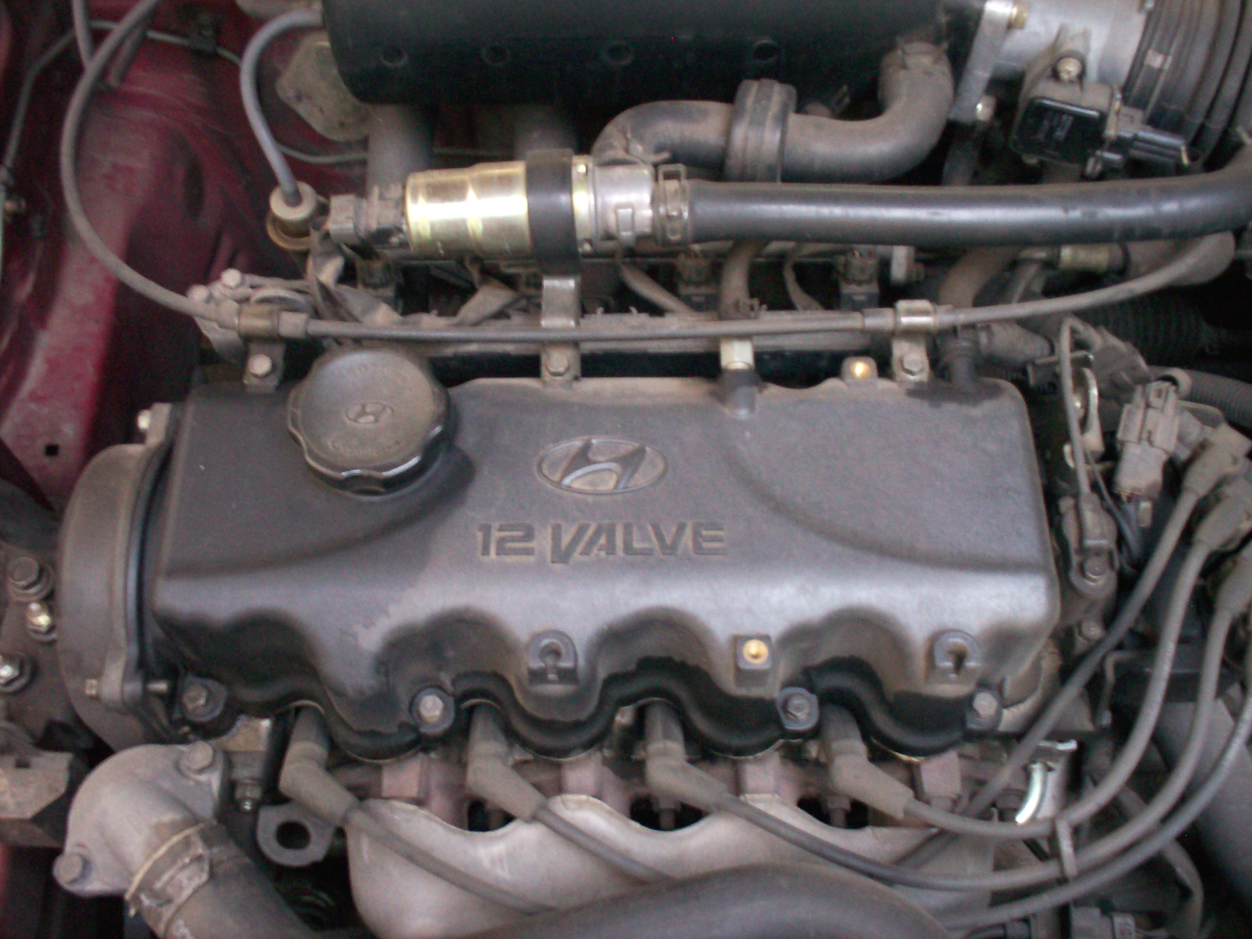 Hyundai G4EH engine of a 1999 Hyundai Accent L (X3). The engine had 200,749 kilometers at the time the picture was taken.